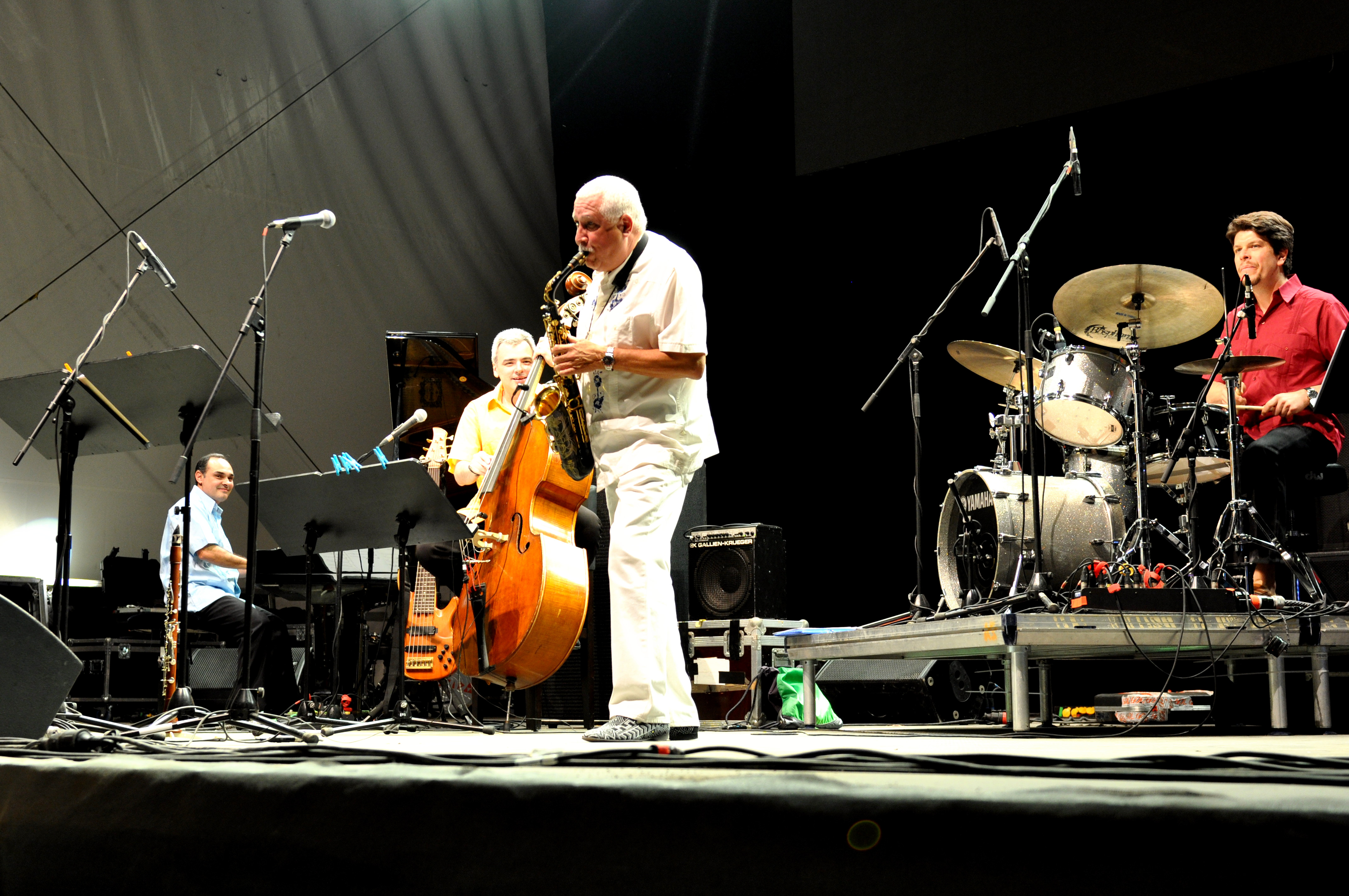 Trio Corrente feat. Paquito D'Rivera (BRA/CUB), World Music Festival Horizonte 2015, Ehrenbreitstein Fortress, Koblenz, Rhineland-Palatinate, Germany Festivalsommer This photo was created with the support of donations to Wikimedia Deutschland in the context of the CPB project "Festival Summer".